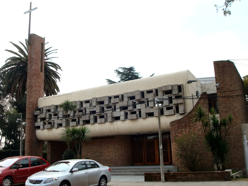 The Armenian Evangelical Church on Luis Alberto de Herrera Avenue in Brazo Oriental, Montevideo, Uruguay.